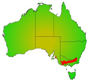 a map of Australia showing the distribution of Galaxias oliros, the obscure galaxias